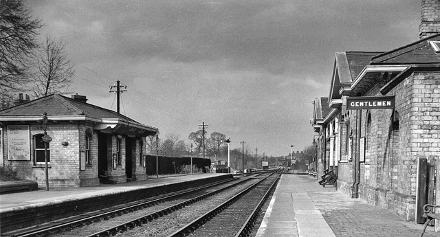 Buckingham Station. View NW, towards Banbury; ex-London & North Western, Bletchley - Verney Junction - Banbury line. Buckingham - Banbury was closed 2/1/61 and the station closed to passengers on 7/9/64, but the line from Verney Junction was not finally closed until 5/12/66. It looks healthy enough, if deserted, in this 1962 picture. Evidently the platforms were rather low, as moveable steps can be seen on the right.